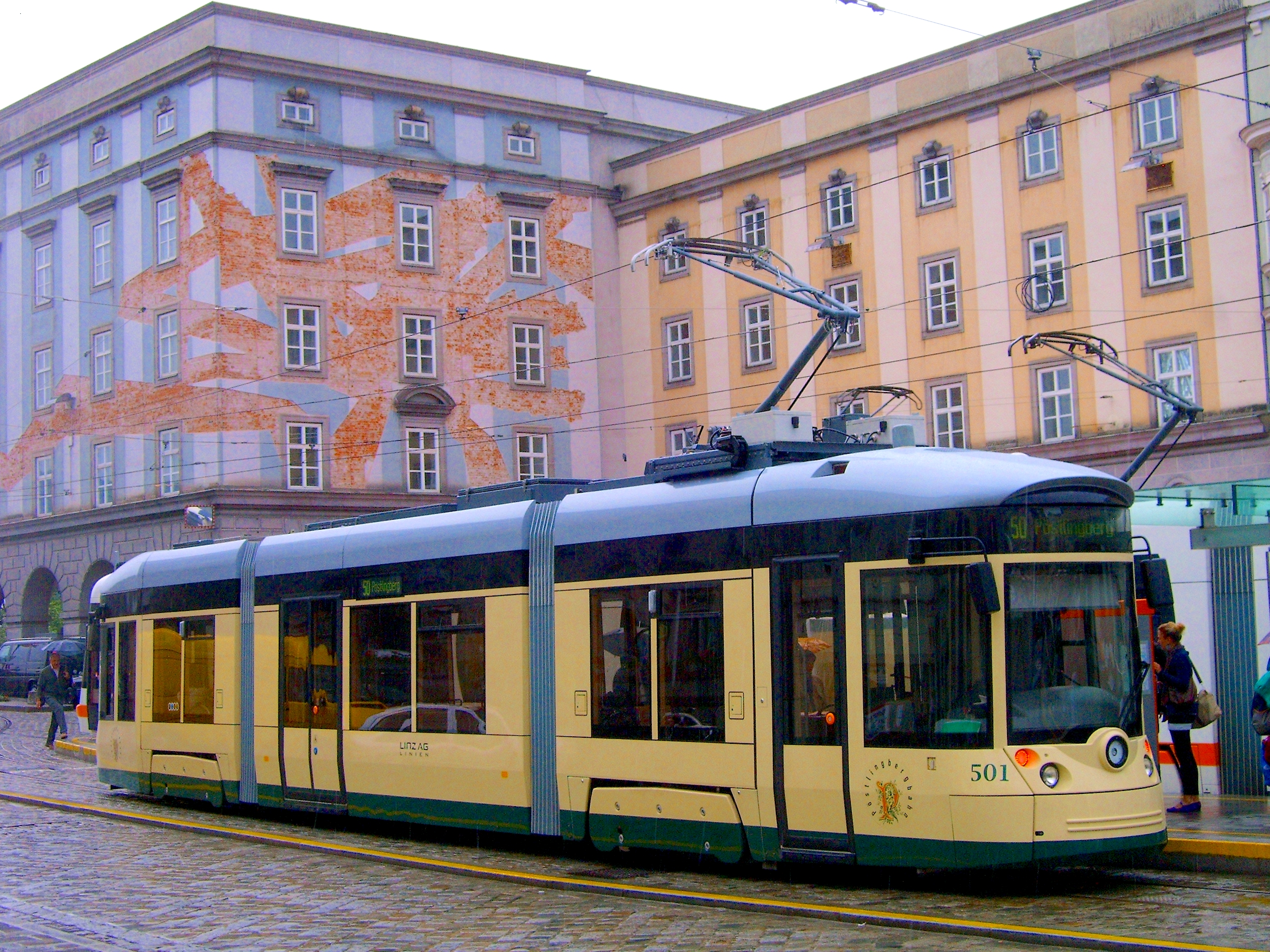 Tram car 501 of the Pöstlingbergbahn at Hauptplatz, on a test trip before the reopening of the line in May 2009